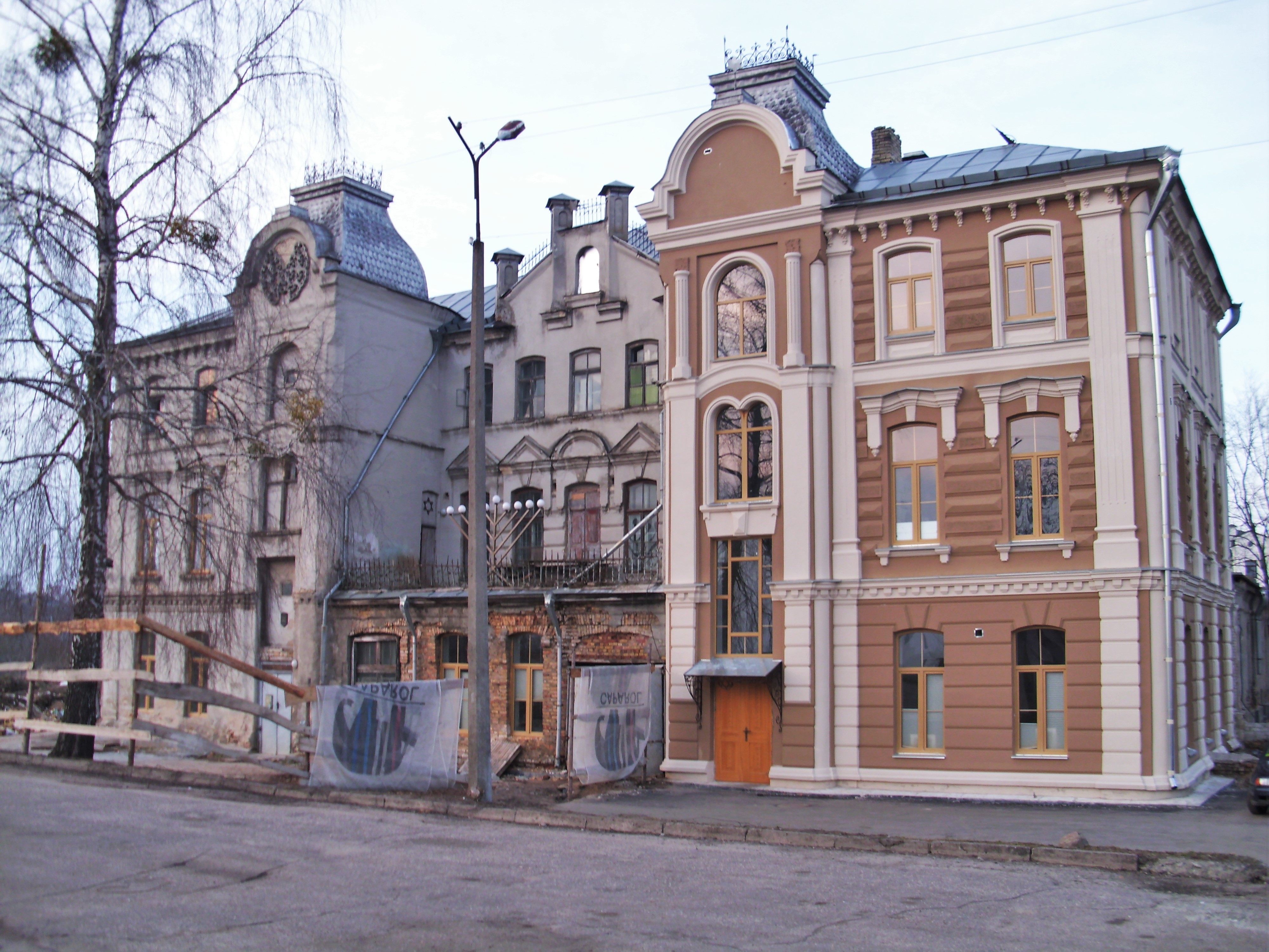 Synagogue in Grodno. Reconsturction. 2013